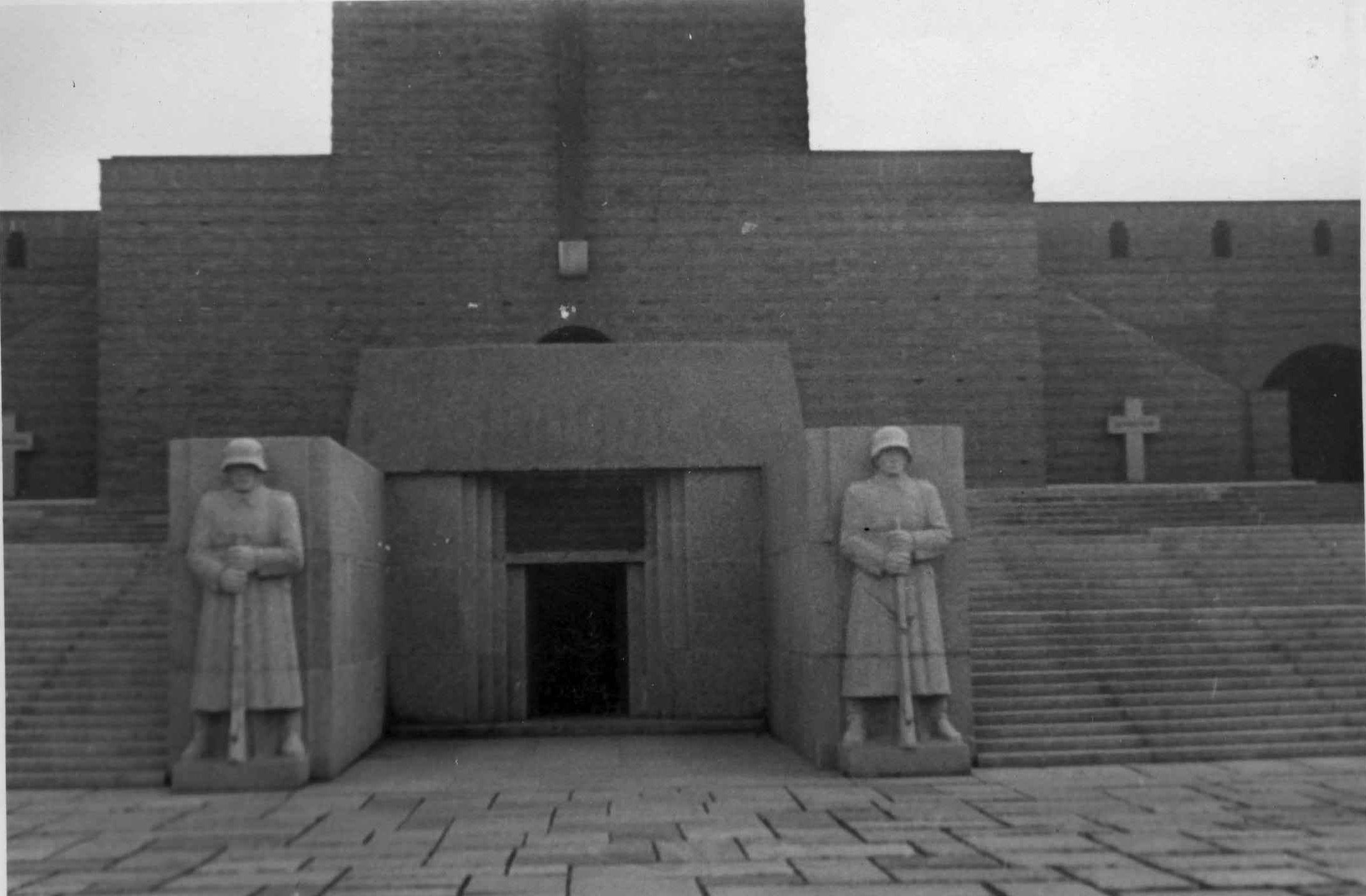 Tannenberg Memorial at Hohenstein June/July t1940